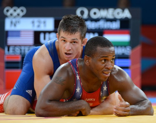 WCAP SPC Justin Lester finishes eighth in Olympic Greco-Roman 66-kilogram wrestling photos by Tim Hipps, IMCOM Public Affairs